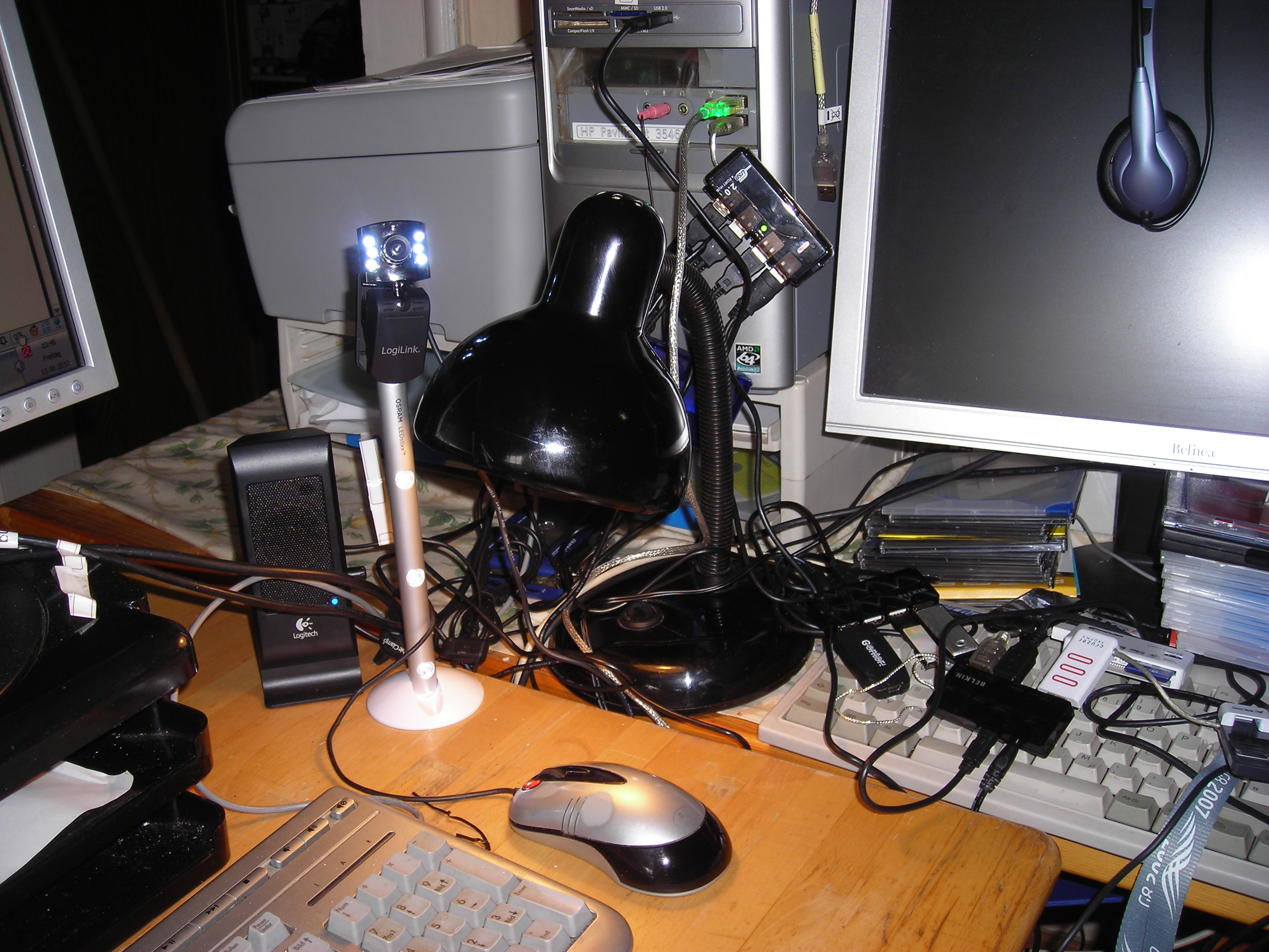 Home office with computers